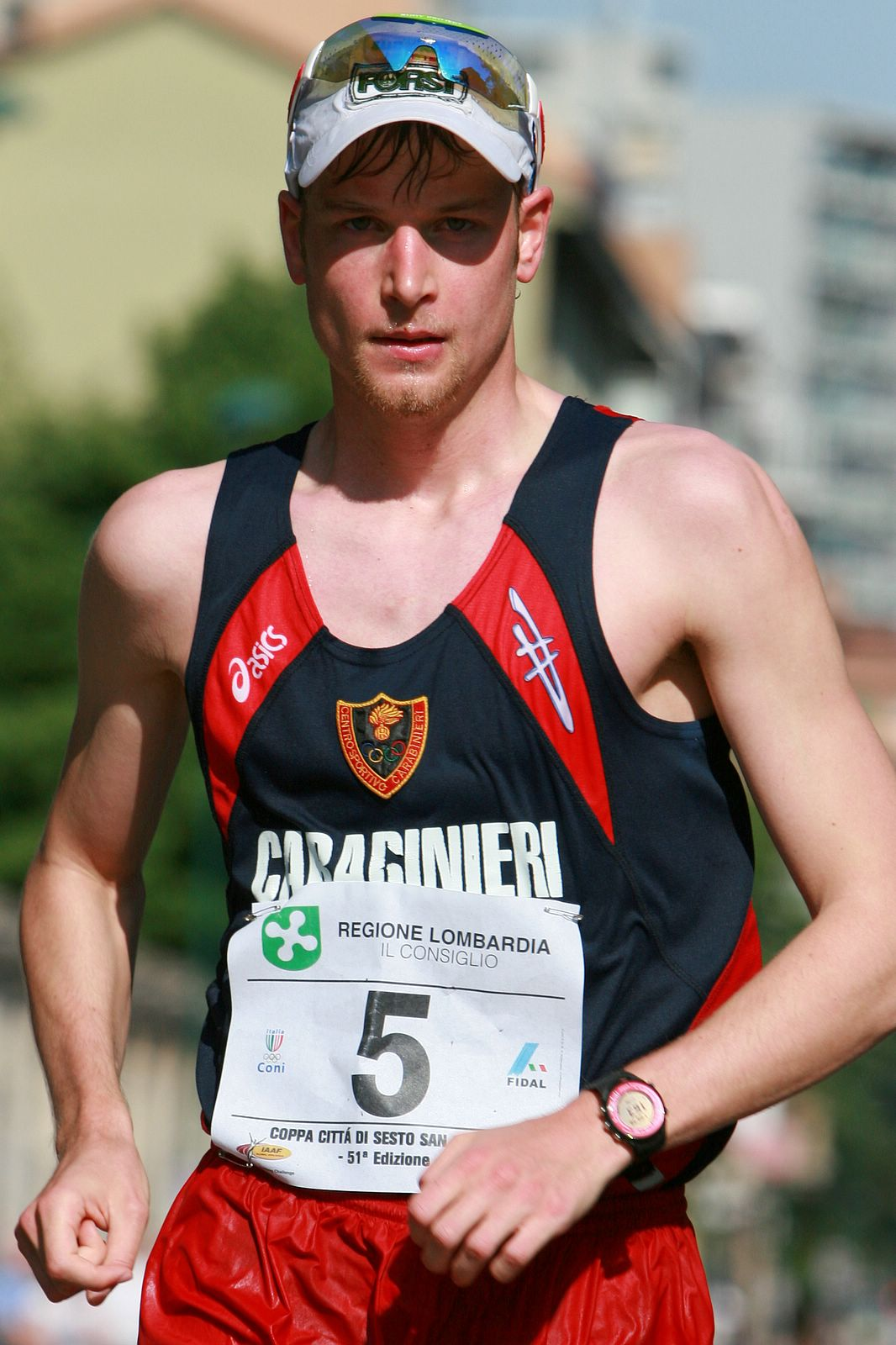 Alex Schwazer in Sesto San Giovanni (Italy)